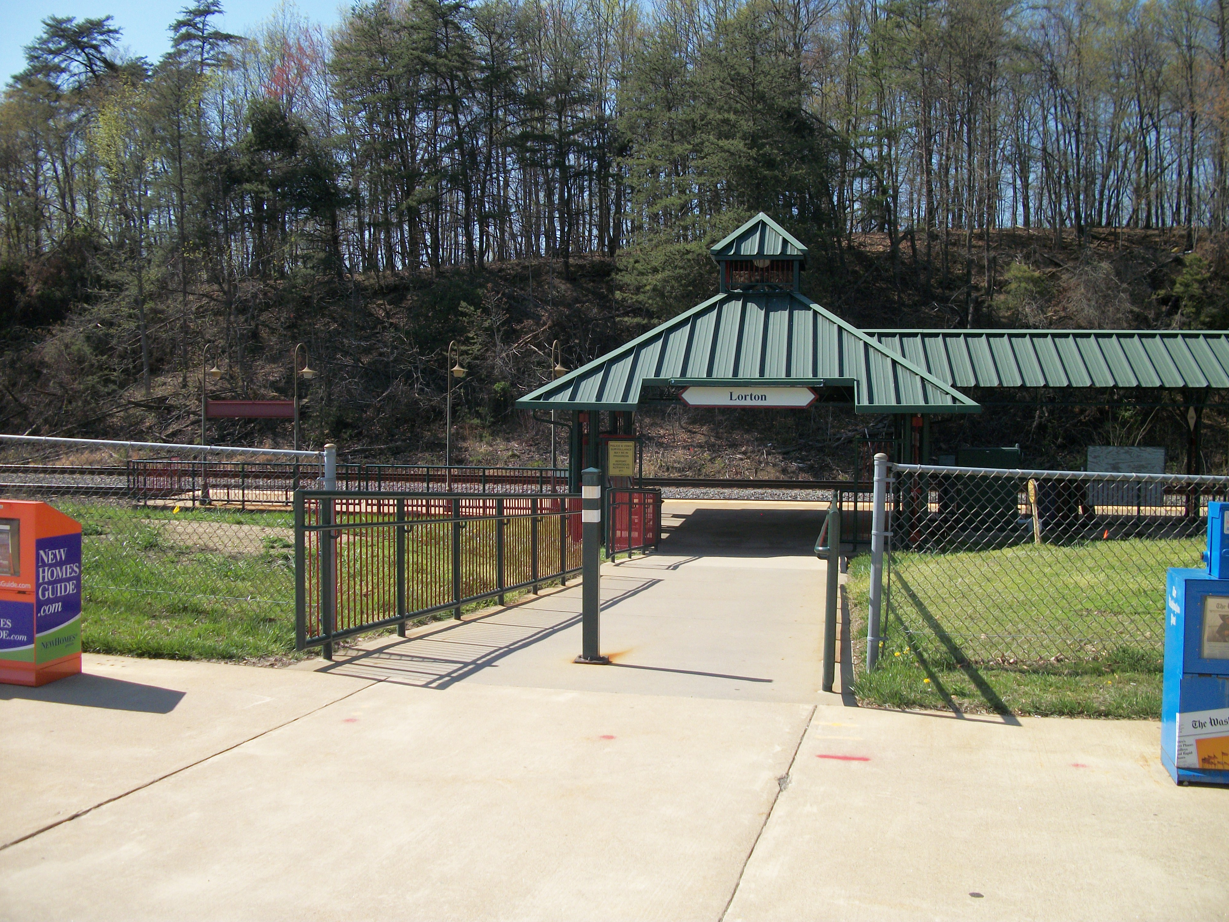 The ramp to Lorton Virginia Railway Express commuter railroad station. Lorton's Amtrak Auto Train station is just south of here.